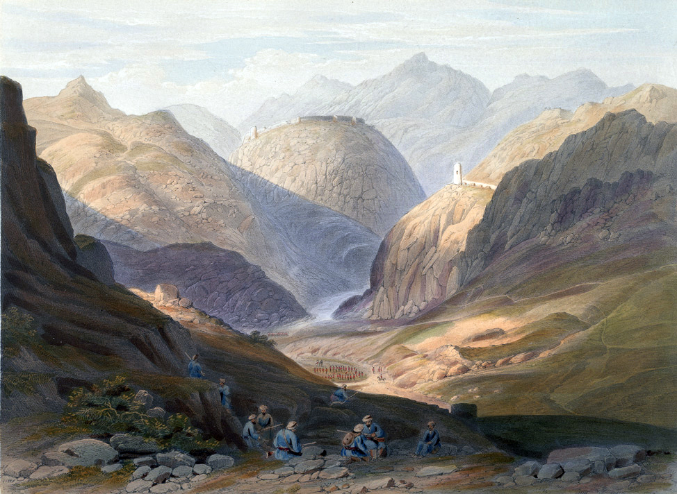 "Fortress of Alimusjid, and the Khybur Pass," a lithograph by James Rattray, 1848* (BL)